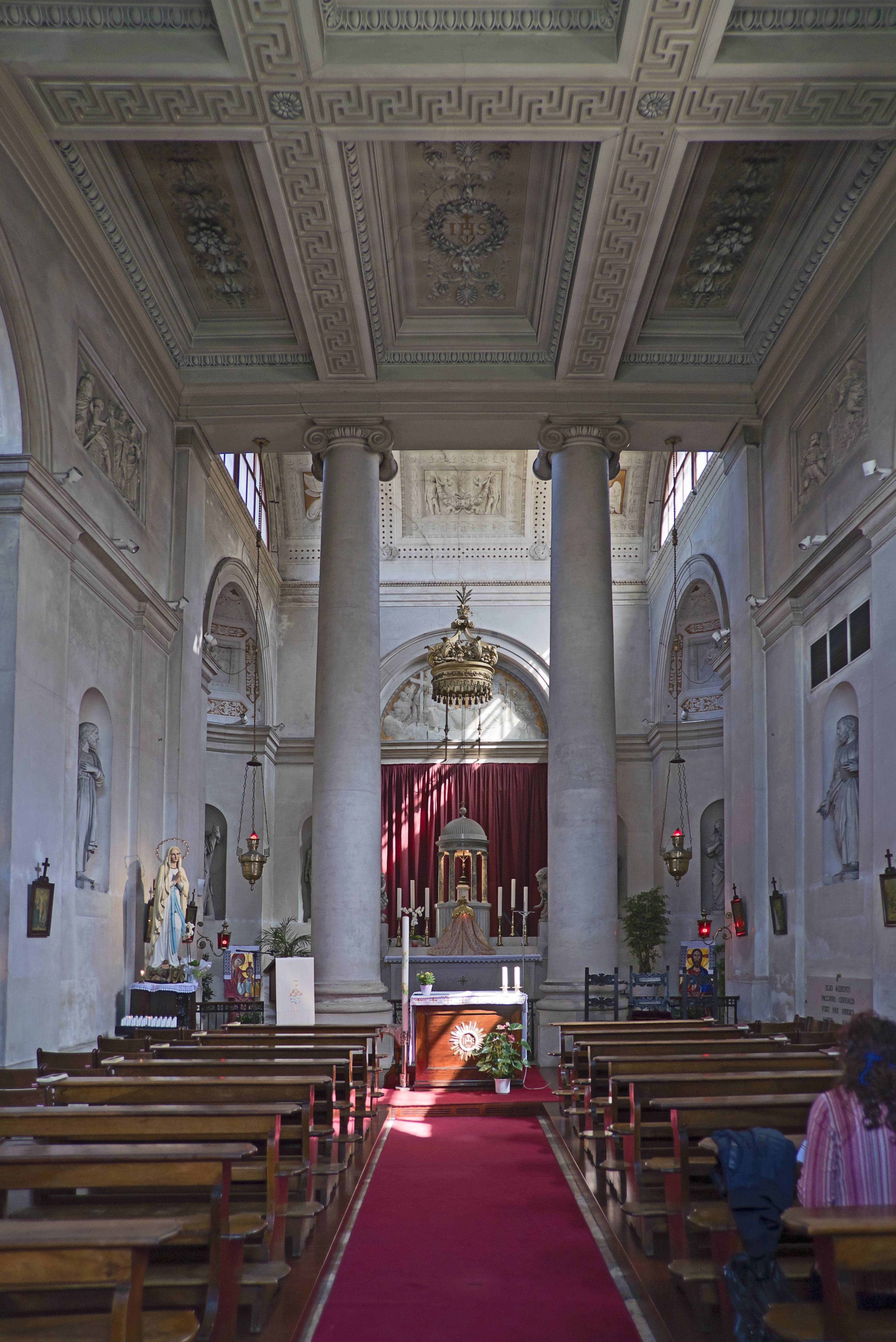 Church of Nome di Gesù in Venice - Interior.